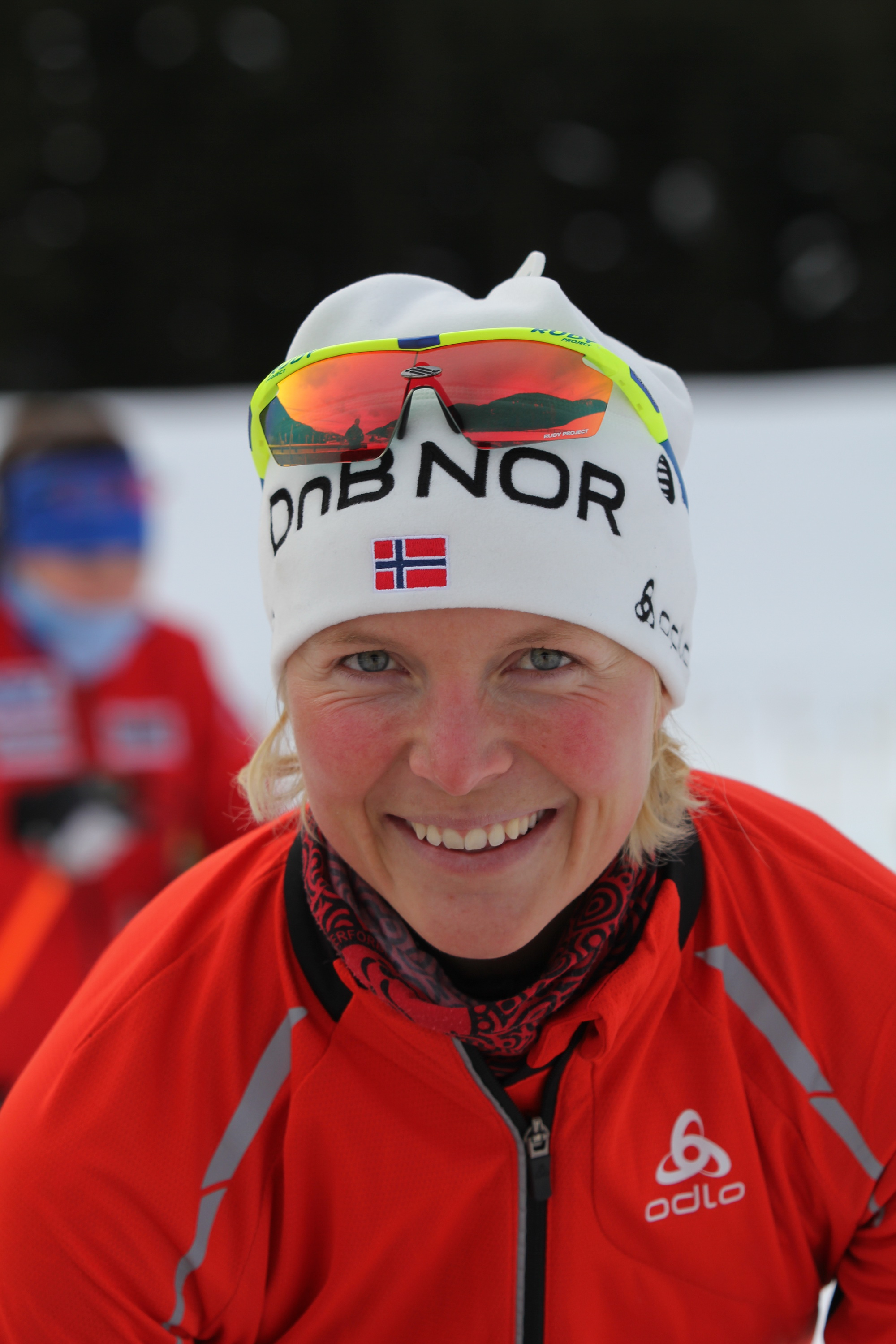 Solveig Rogstad during training at IBU Cup Obertilliach 2010